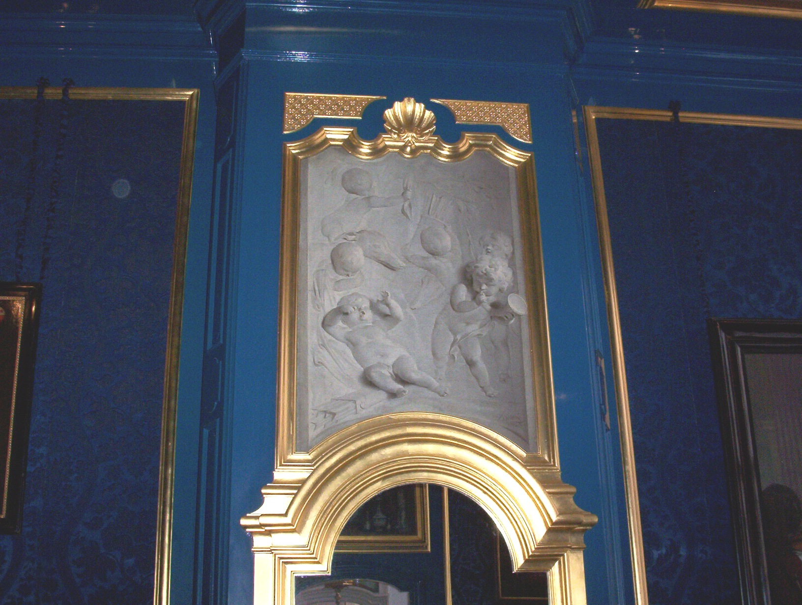 Willet-Holthuysen Museum, Herengracht 605, Amsterdam. Trompe l'oeil wall painting known as grisaille by Jacob de Wit. Painting not originally from this building, but from another Amsterdam canal house, circa 1730.